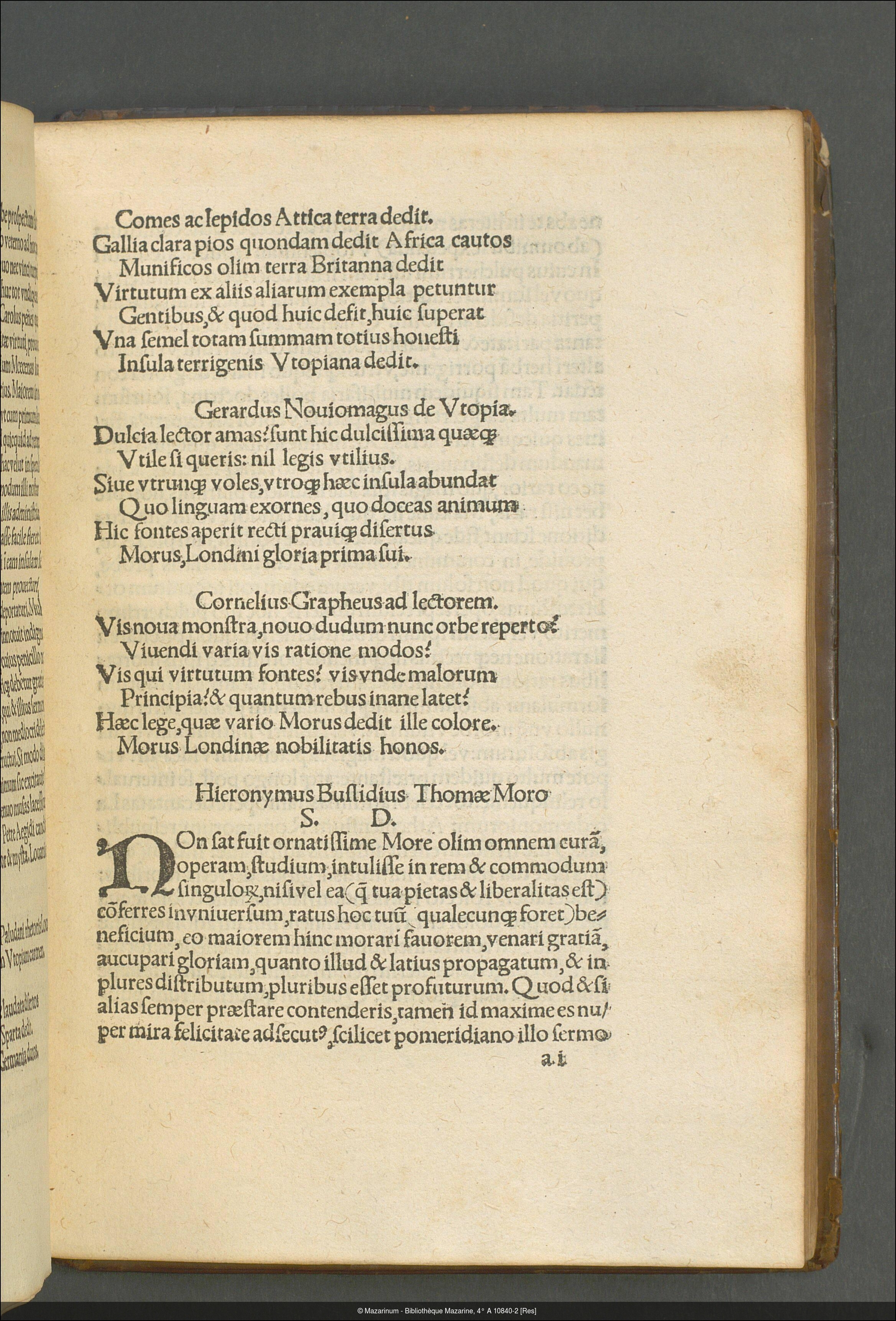 In this page we can see, first, the last verses of J. Desmarez poem, then, the poem written by Gerardus Noviomagus, after, the poem written by Cornelius Schrijver, finally, the debut of the letter wrote by J. Busleyden to Th. More (Utopia 1516, first edition)